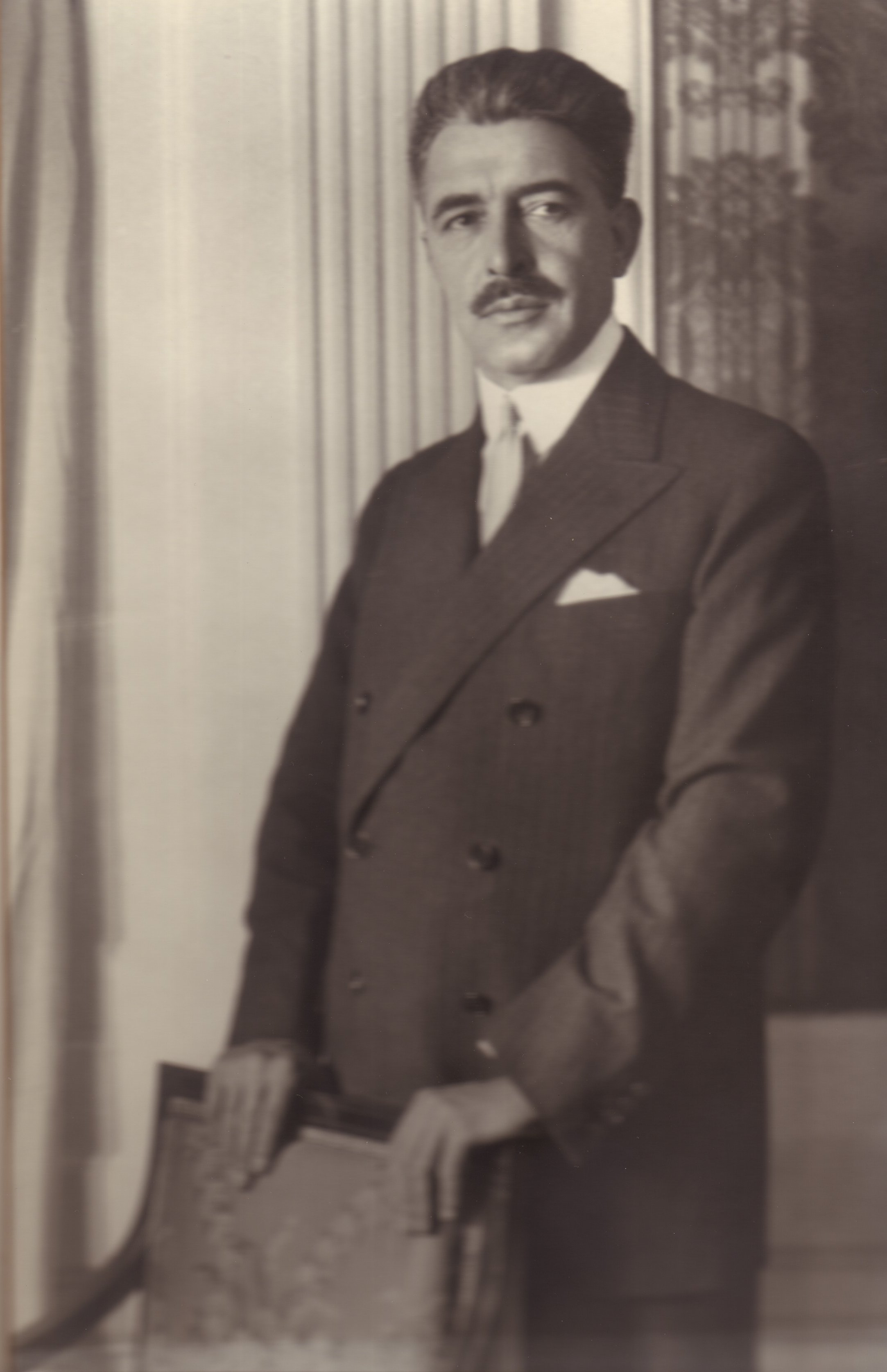 Official portatrait of Abdolhossein Teymourtash, iranian politician.